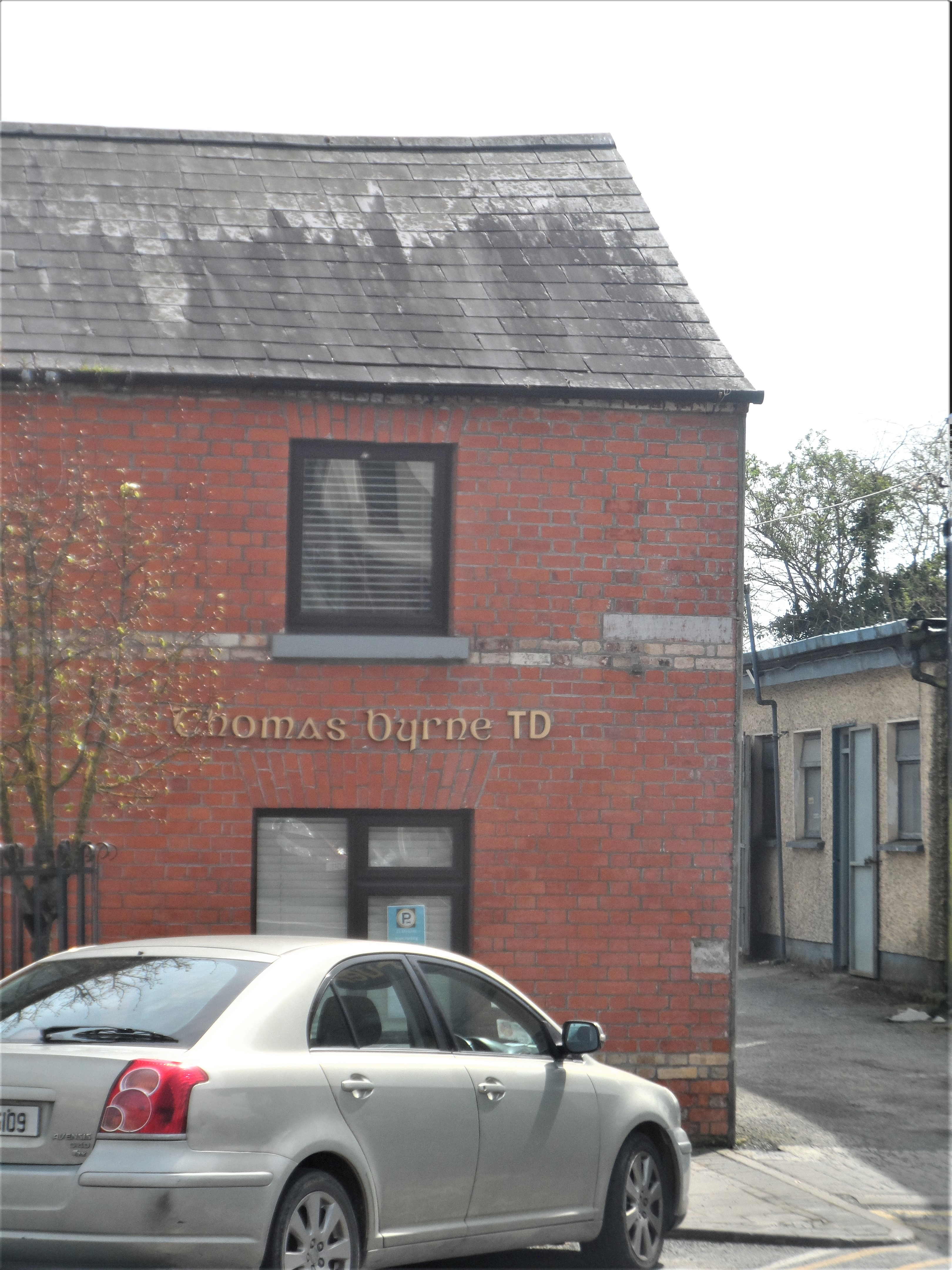 Thomas Byrne constituency office